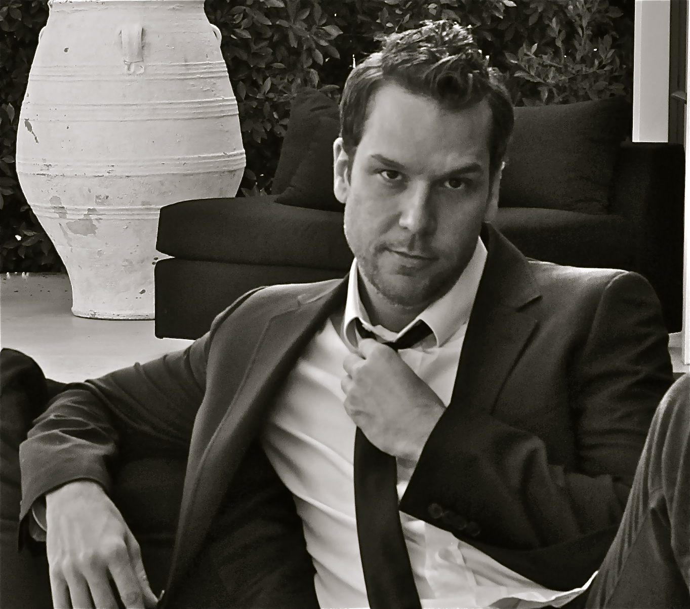 Dane Cook